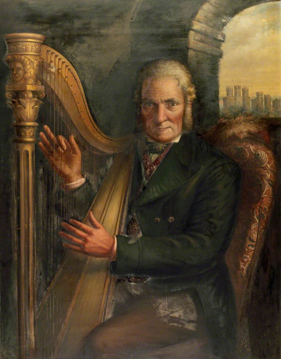 A painting from the Framed Works of Art collection at the National Library of wales.